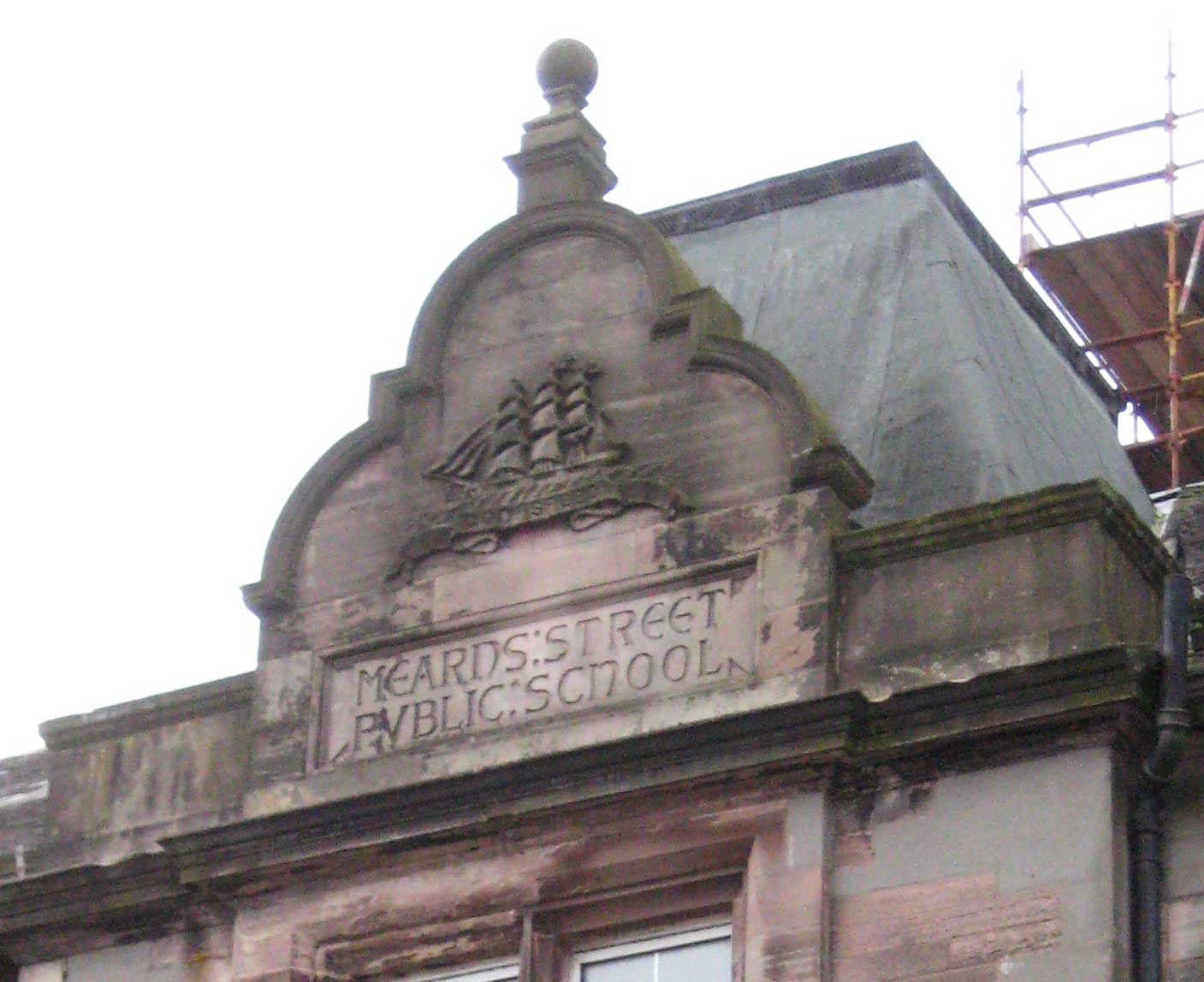 Pediment showing name of Mearns Street Public School in Greenock